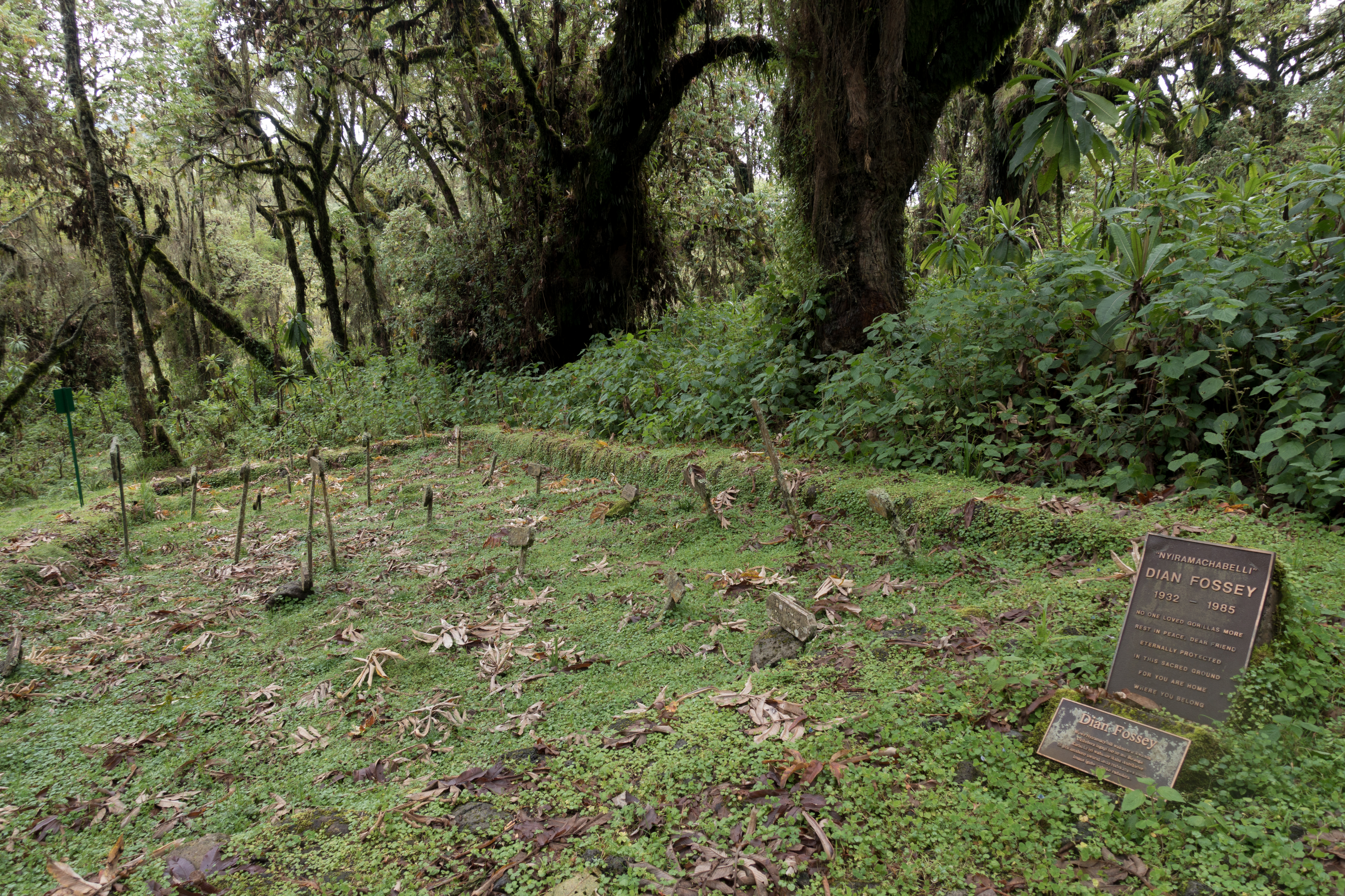 The making of this document was supported by Wikimedia CH. (Submit your project!) For all the files concerned, please see the category Supported by Wikimedia CH. Dian Fossey's Research Center